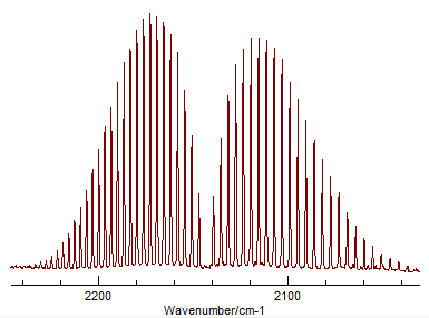 Part of the rotational-vibrational spectrum of carbon monoxide (CO) gas (from FTIR), showing the presence of P ( 2140 cm-1) branches. Frequency is on the x-axis, and absorbance on the y-axis.